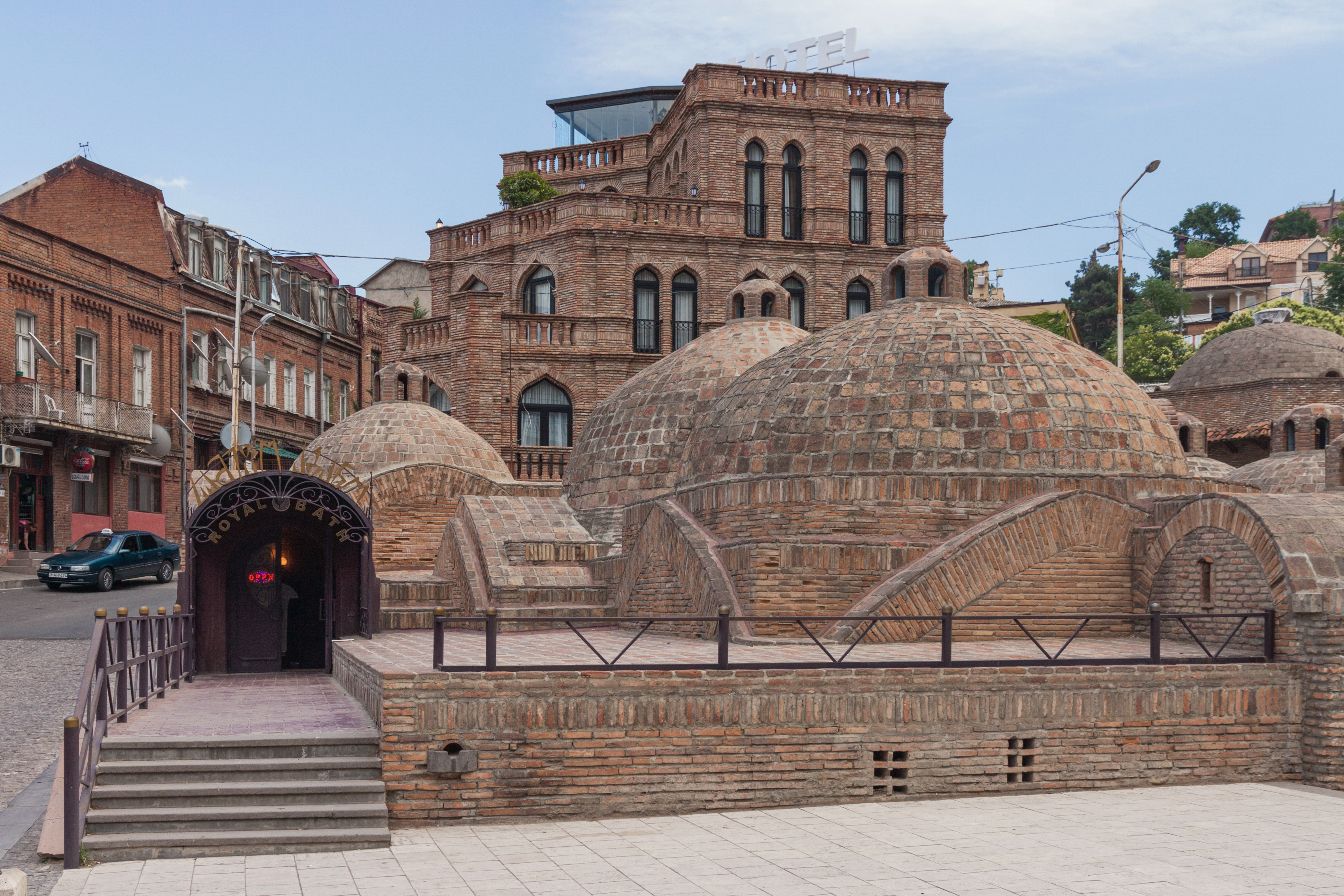 Sulfur baths in Abanotubani. Royal baths. Tbilisi, Georgia.